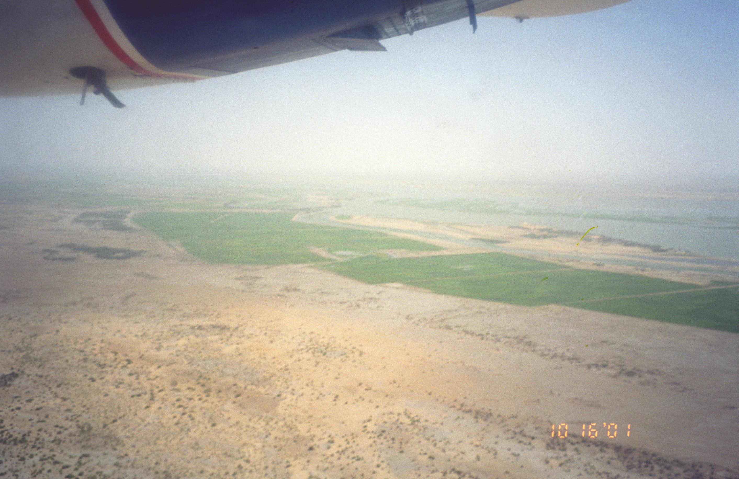 still following the niger river north towards the sahara